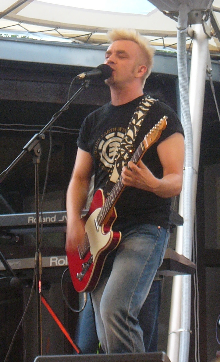 Andrius Mamontovas performing at club Kupeta, Palanga, Lithuania in 2005